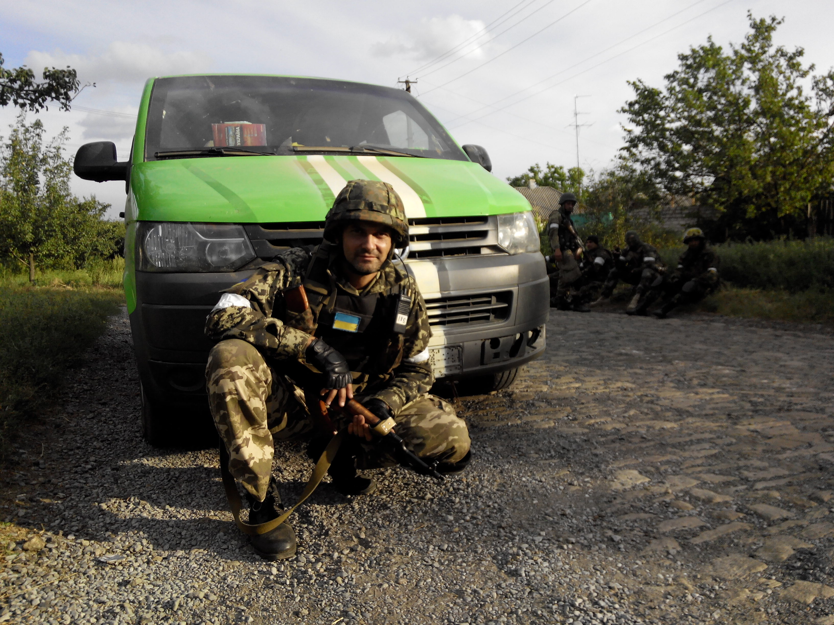 19 серпня 2014